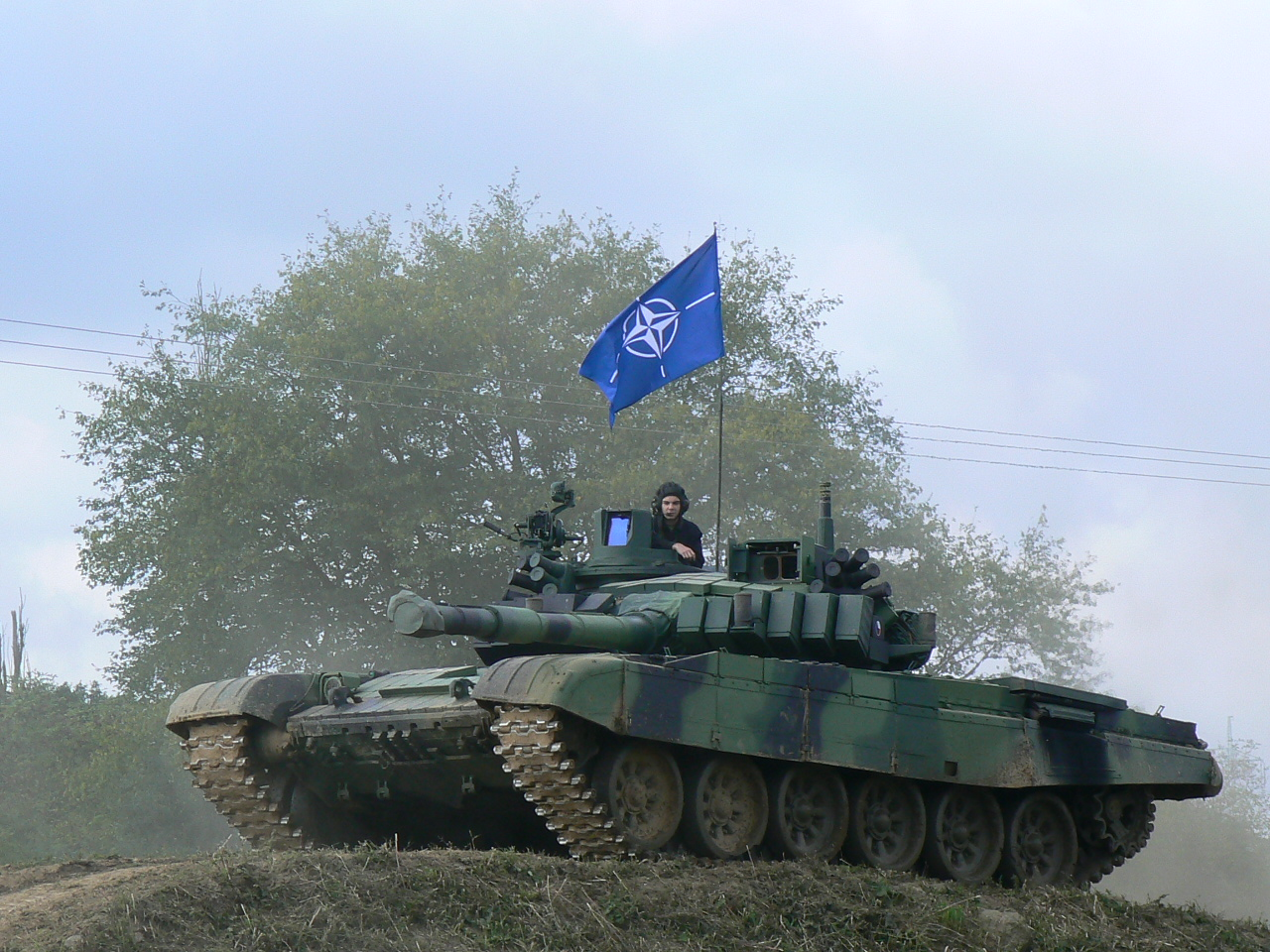 T-72M4 CZ tank during the 6th Tank Day in Lešany Military Technical Museum, Czech Republic